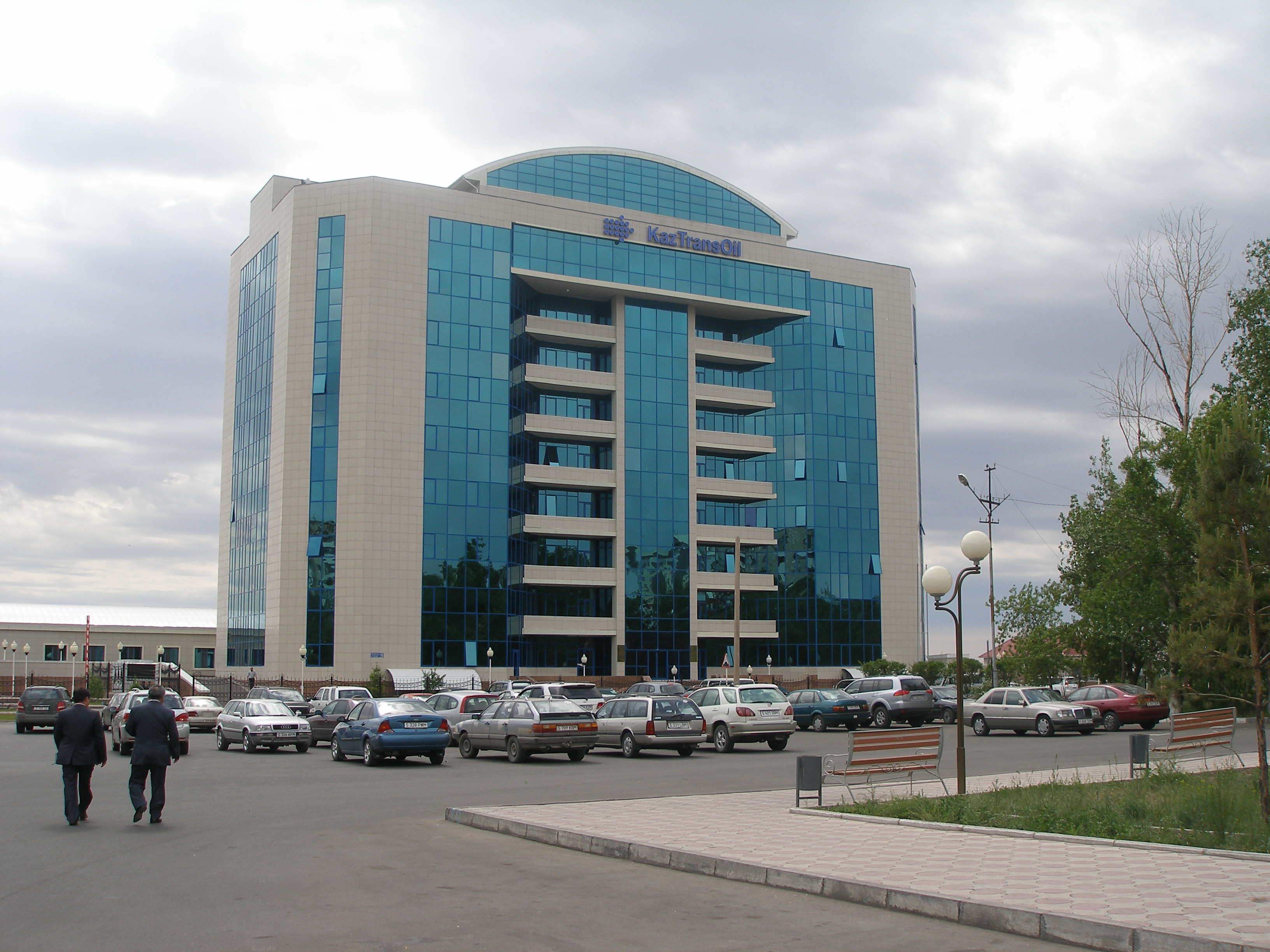 KazTransOil Pavlodar building